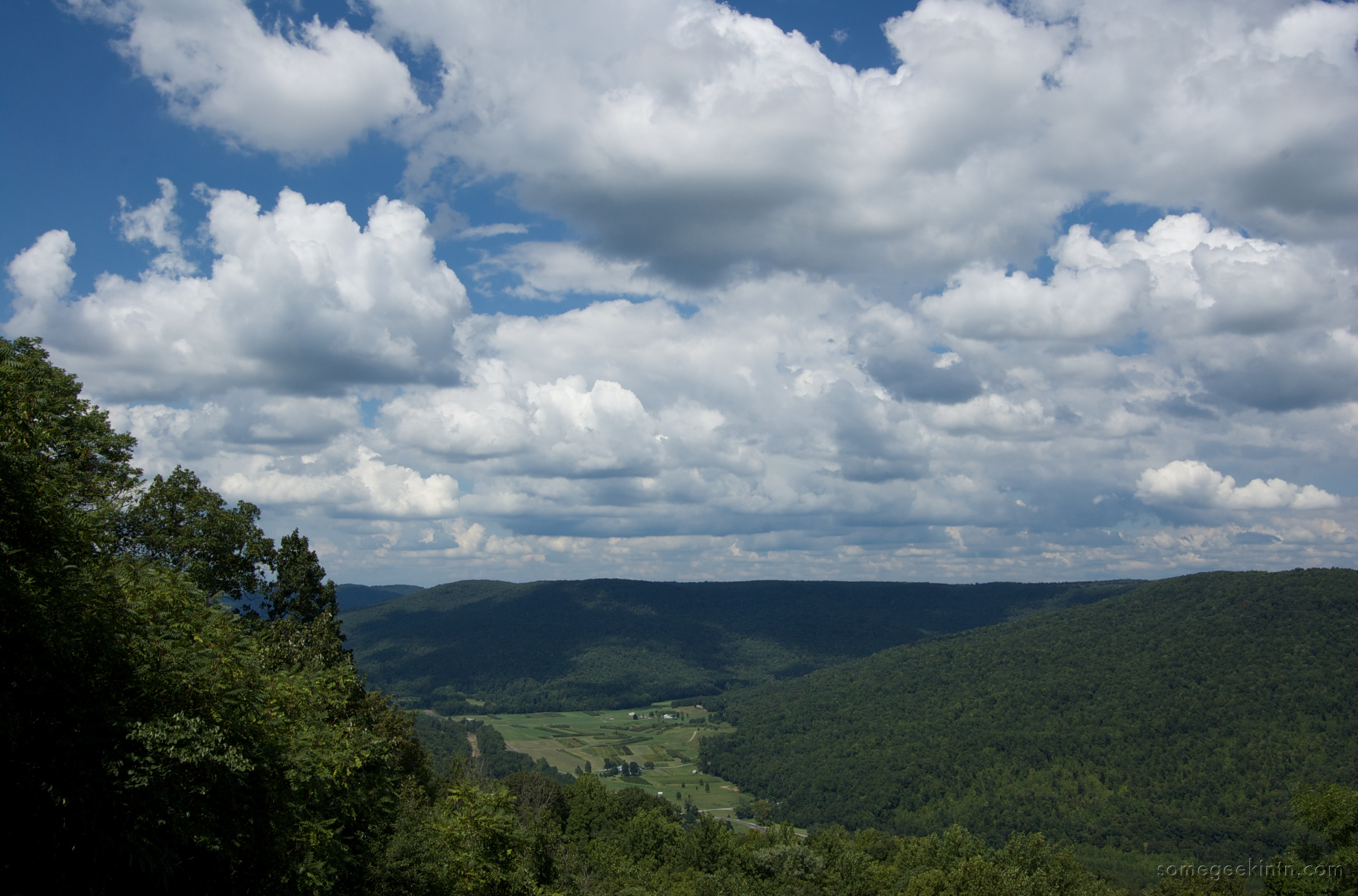 View from the Beersheba Springs Hotel overlook into Tarlton valley.